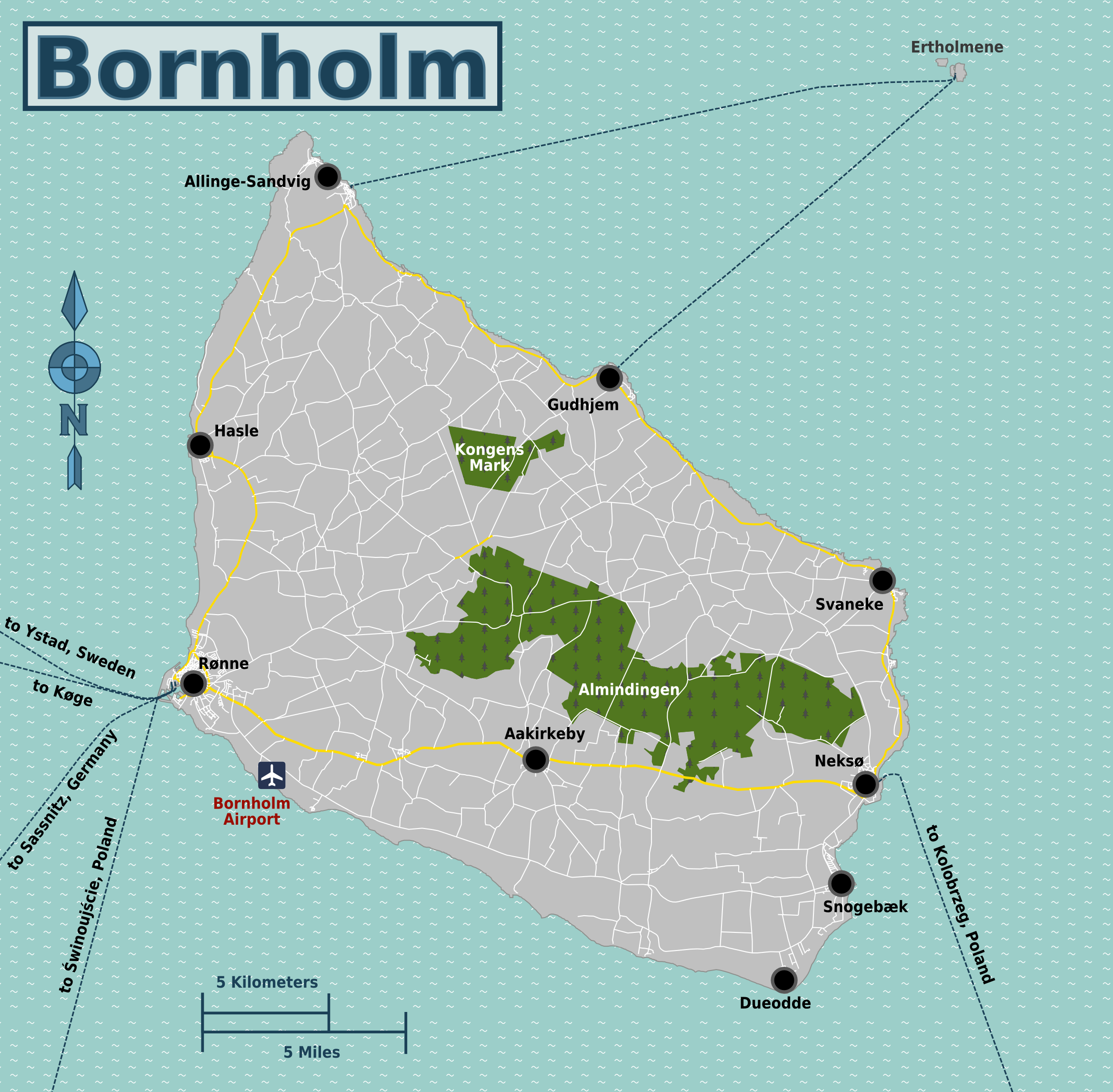 Regional map of Bornholm.